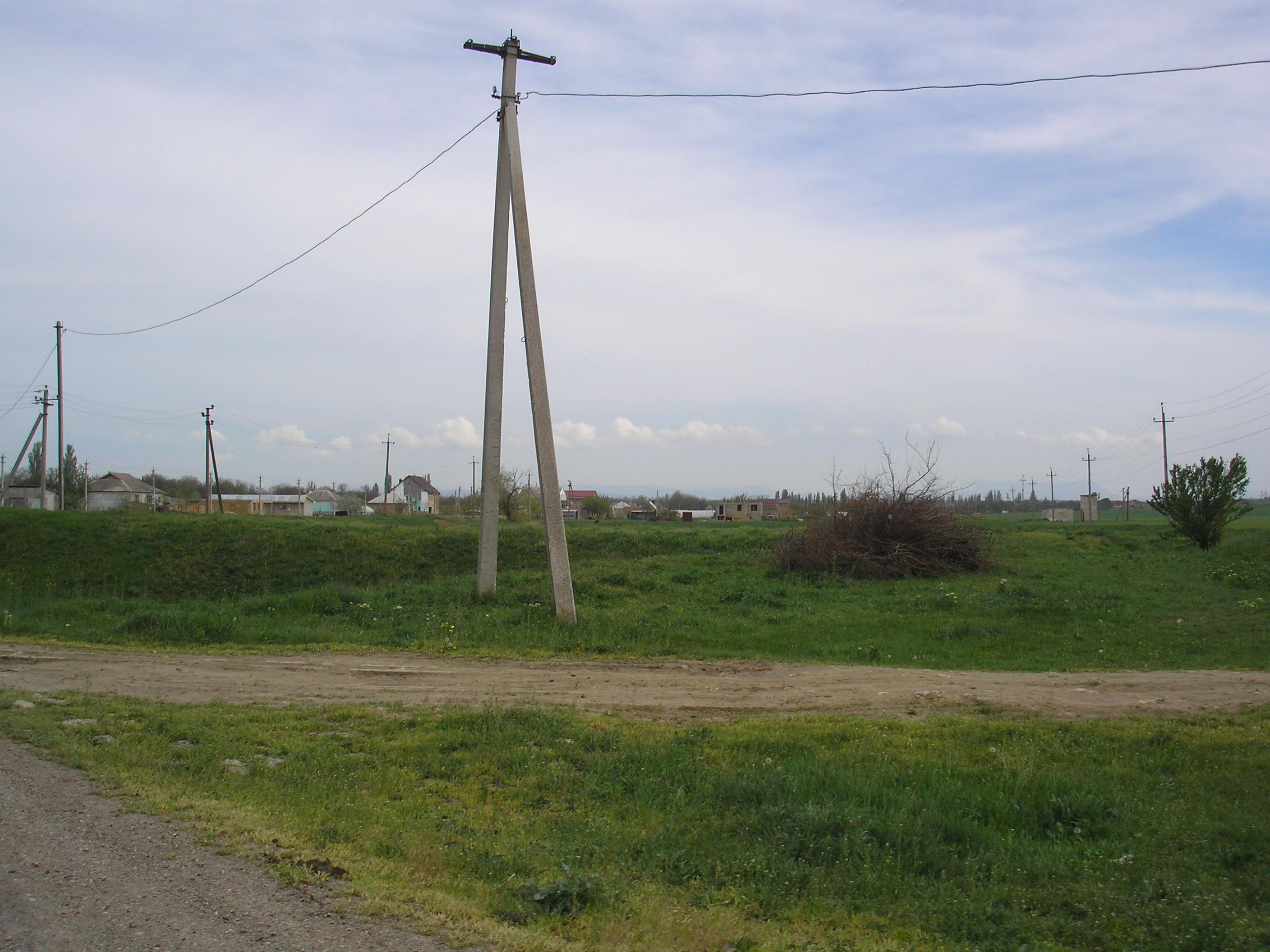 Urozhaynoye village, Simferopol district, Crimea.